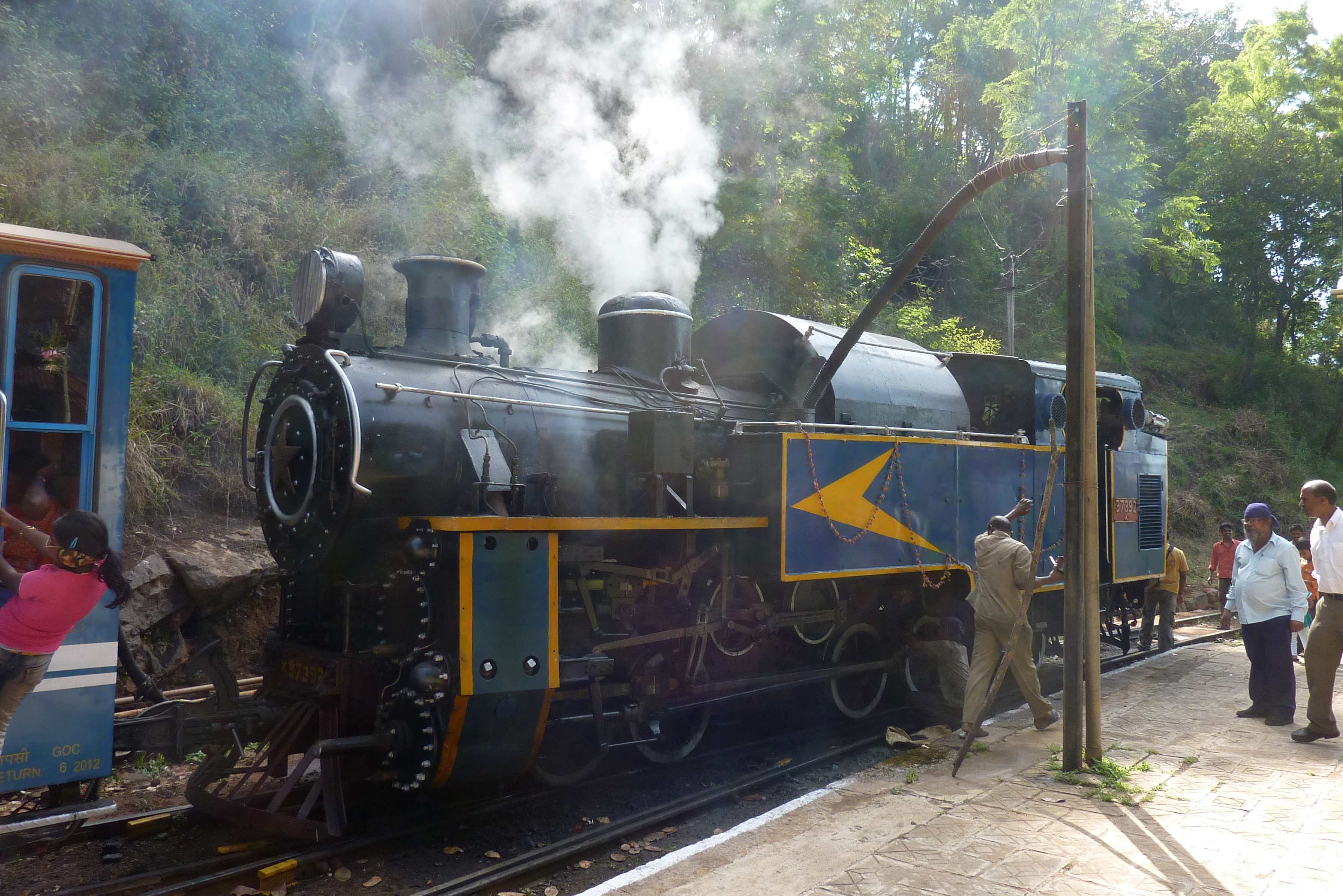 Steam Locomotive, Nilgiri Mountain Railway, May 2010